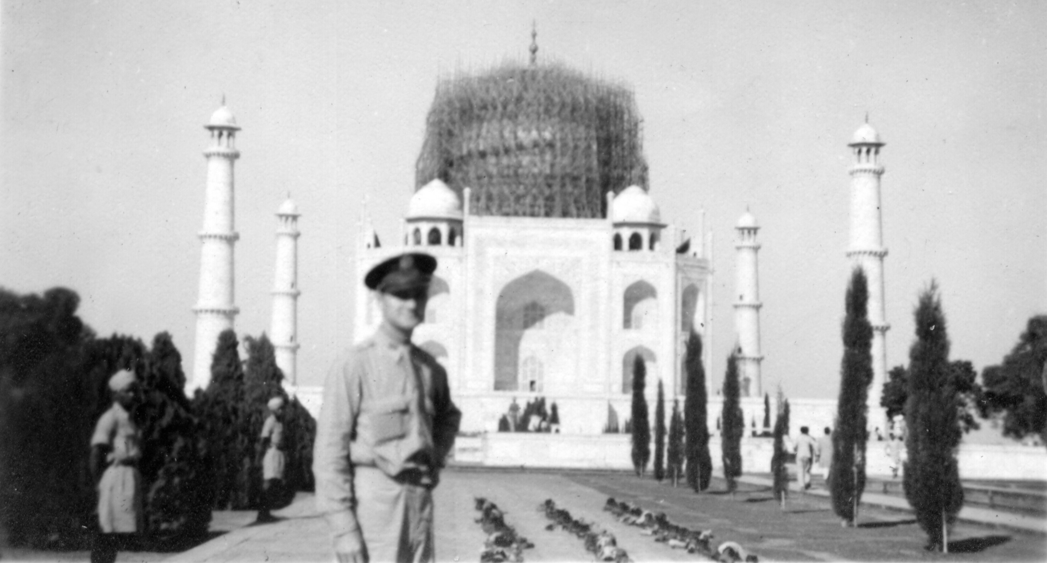 According to wikipedia "in 1942, the government erected a scaffolding in anticipation of an air attack by German Luftwaffe and later by Japanese Air Force." From a mostly uncaptioned World War II photo album.